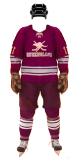 Uniform for the state of Queensland ice hockey team 2015. Home uniform